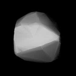 3D convex shape model of 1039 Sonneberga, computed using light curve inversion techniques. J. Hanuš, J. Ďurech, M. Brož, B. D. Warner (June 2011). "A study of asteroid pole-latitude distribution based on an extended set of shape models derived by the lightcurve inversion method". Astronomy and Astrophysics 530: A134. ISSN 0004-6361. arXiv